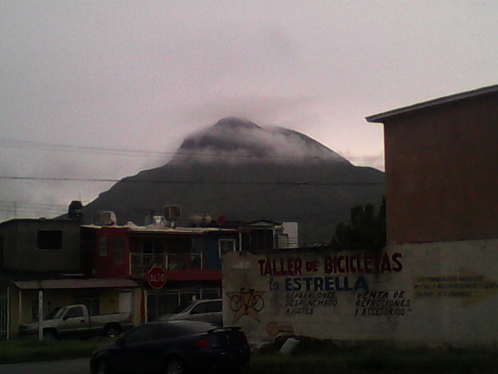 El cerro grande con niebla en verano del 2014.